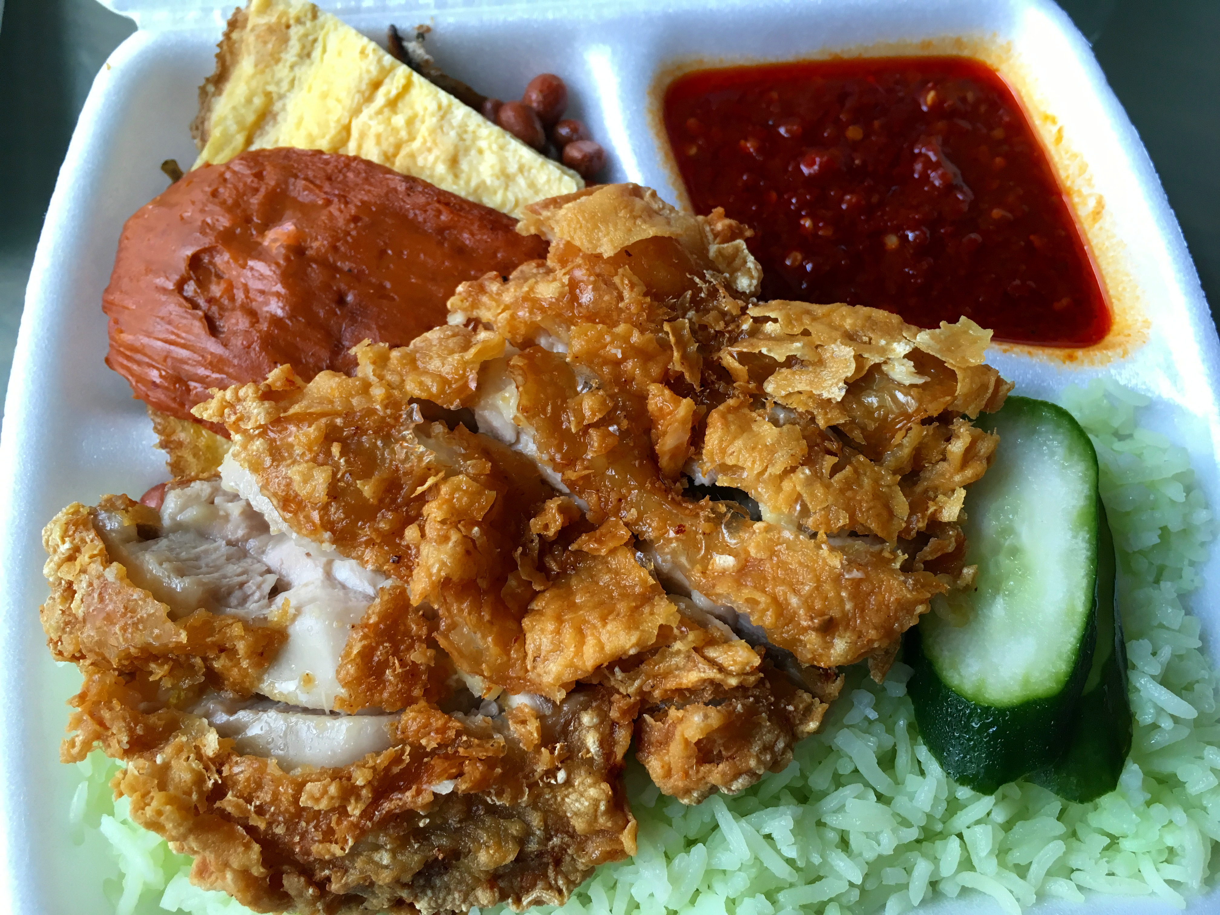 Nasi lemak (Malay fragrant coconut rice) served with chicken cutlet, sambal teri (sambal chilli with anchovy), teri kacang (peanuts and salted ancovy), egg, Otak-otak (grilled fish cake made of ground fish meat mixed with tapioca starch and spices) and slices of cucumber.